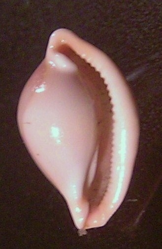 Pseudosimnia carnea (Poiret, 1789) , a mollusc in the family Ovulidae